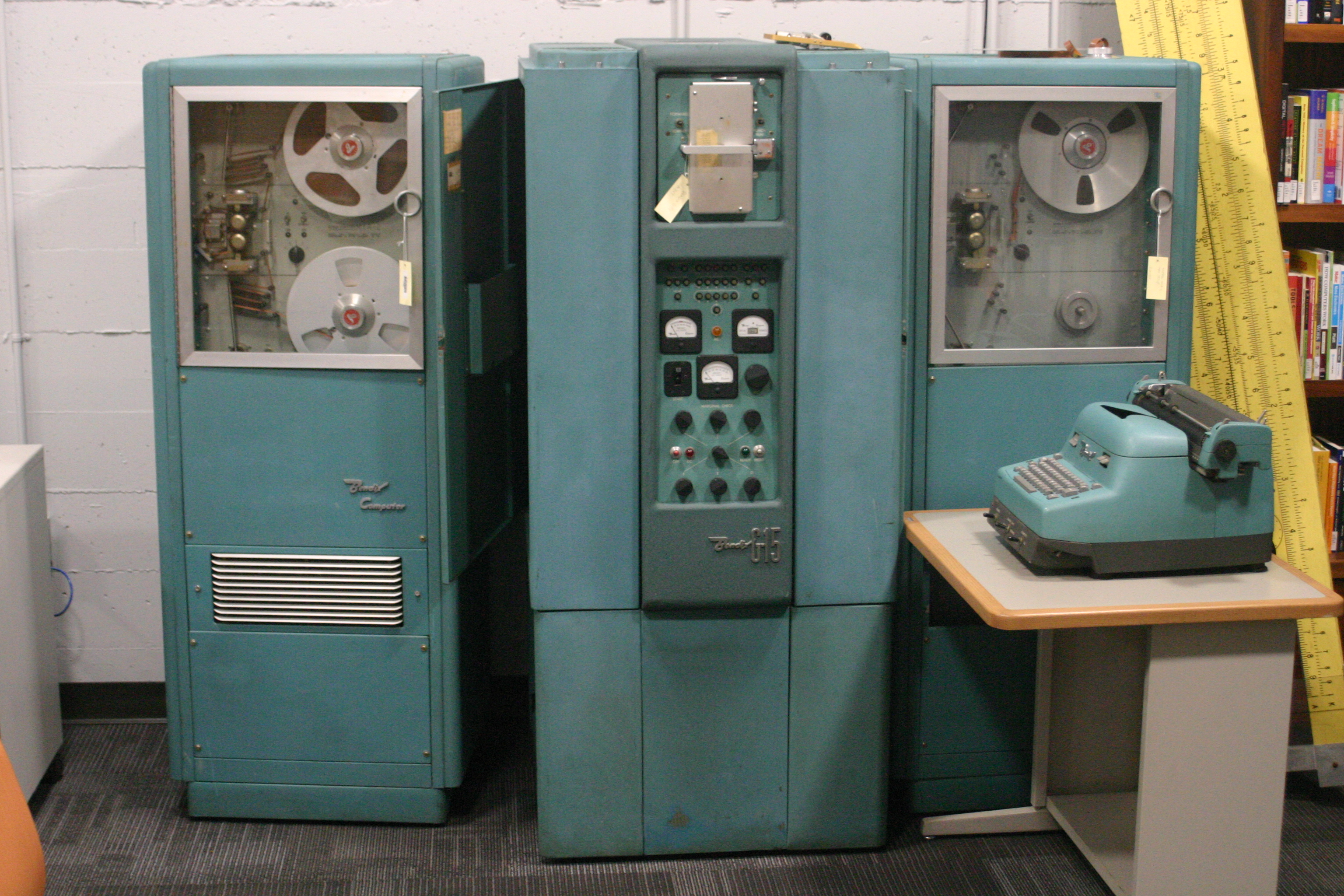 Bendix G15 computer, in color.